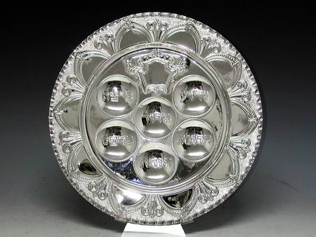 A silver Seder Plate made by Hadad Brother Silver. The Seder plate has different sections for items used during the Passover Seder.